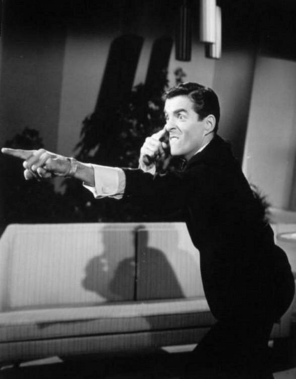 Publicity photo of Pat Harrington, Jr. as the host of Stump the Stars.